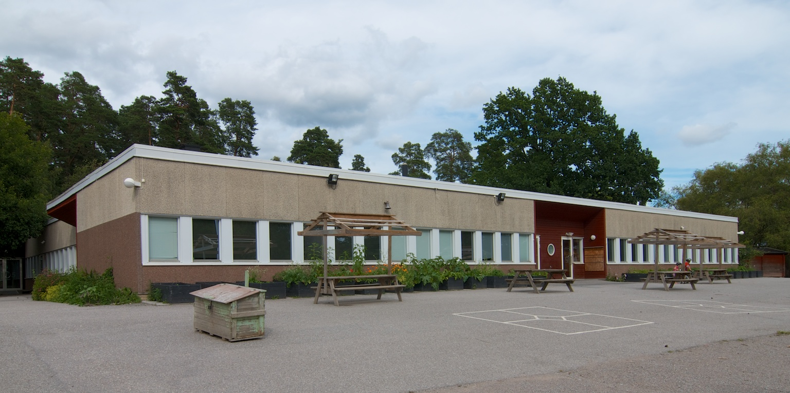 Main building of Tegelhagsskolan